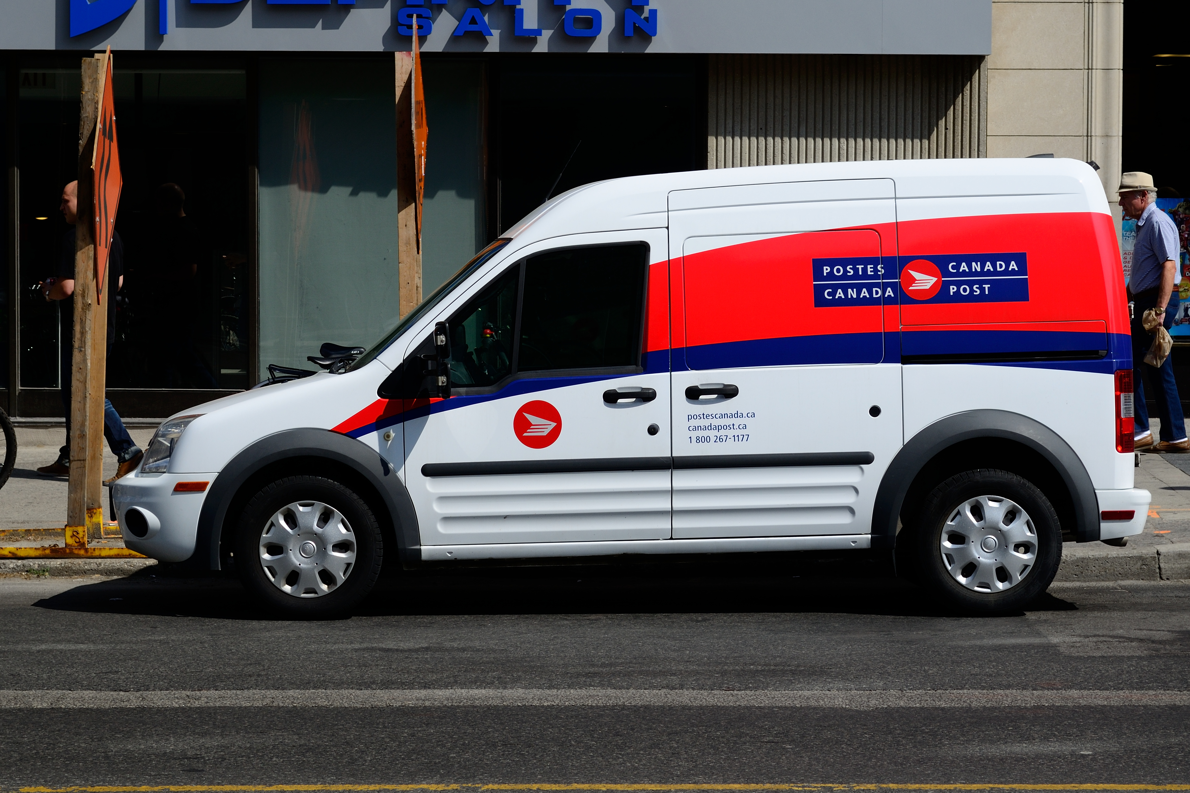 A Canada Post Van in Toronto. (Cropped from File:CanadaPostVan.jpg)